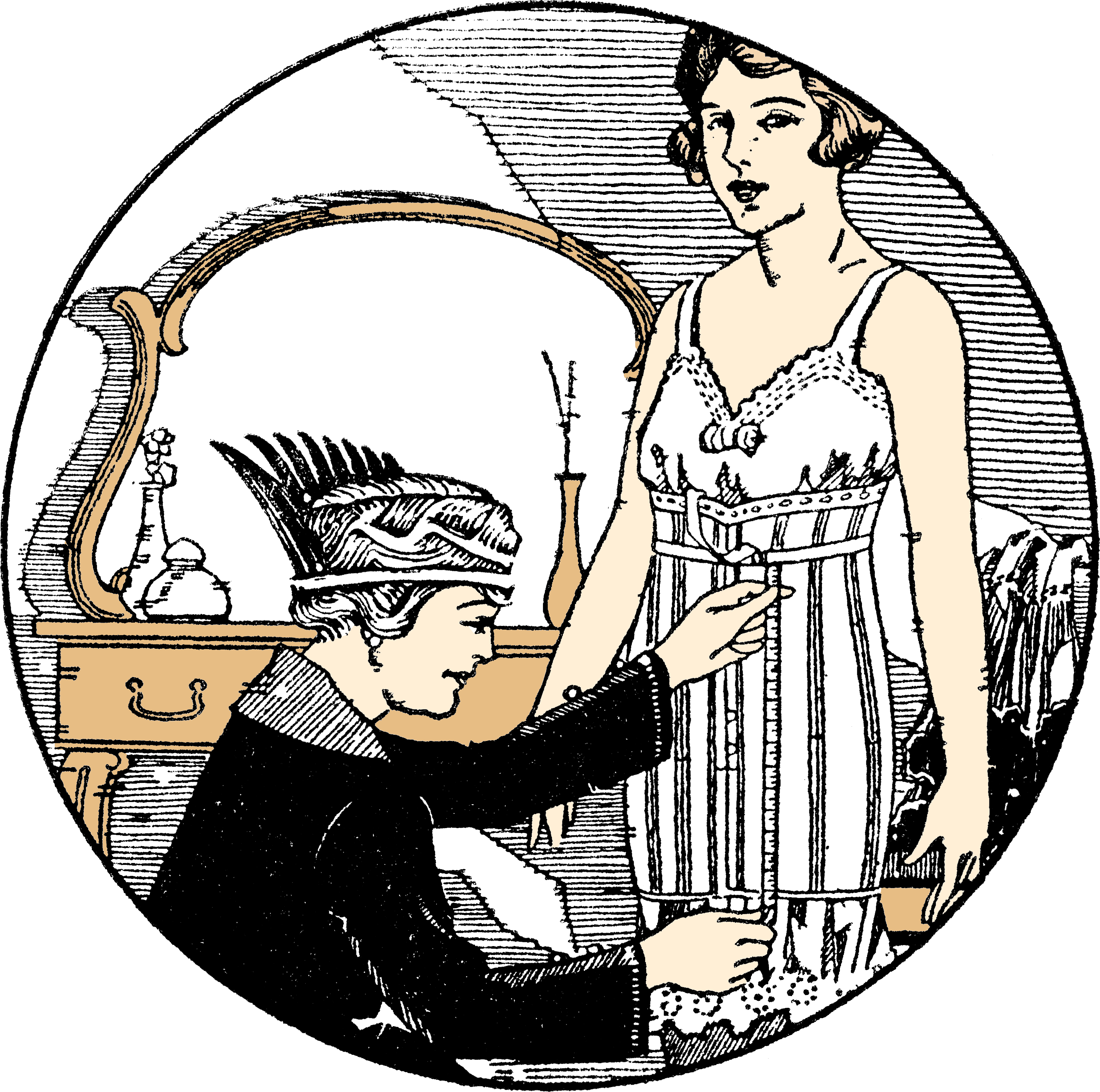 a advertising for spirella corset